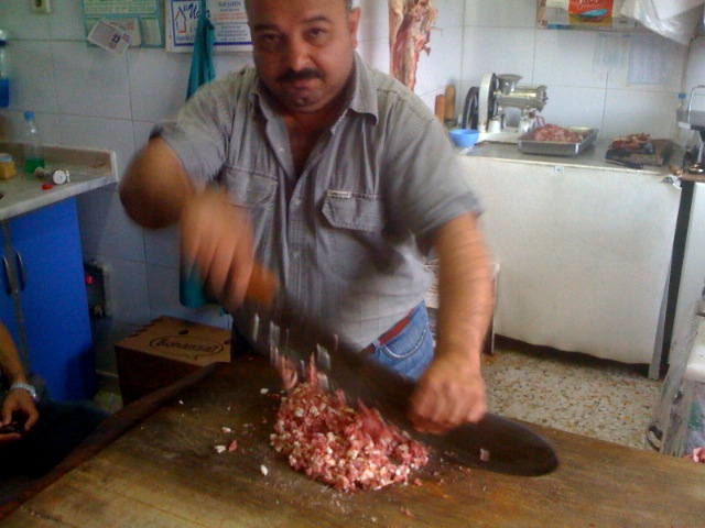 Hand-mincing kıyma in Turkey...